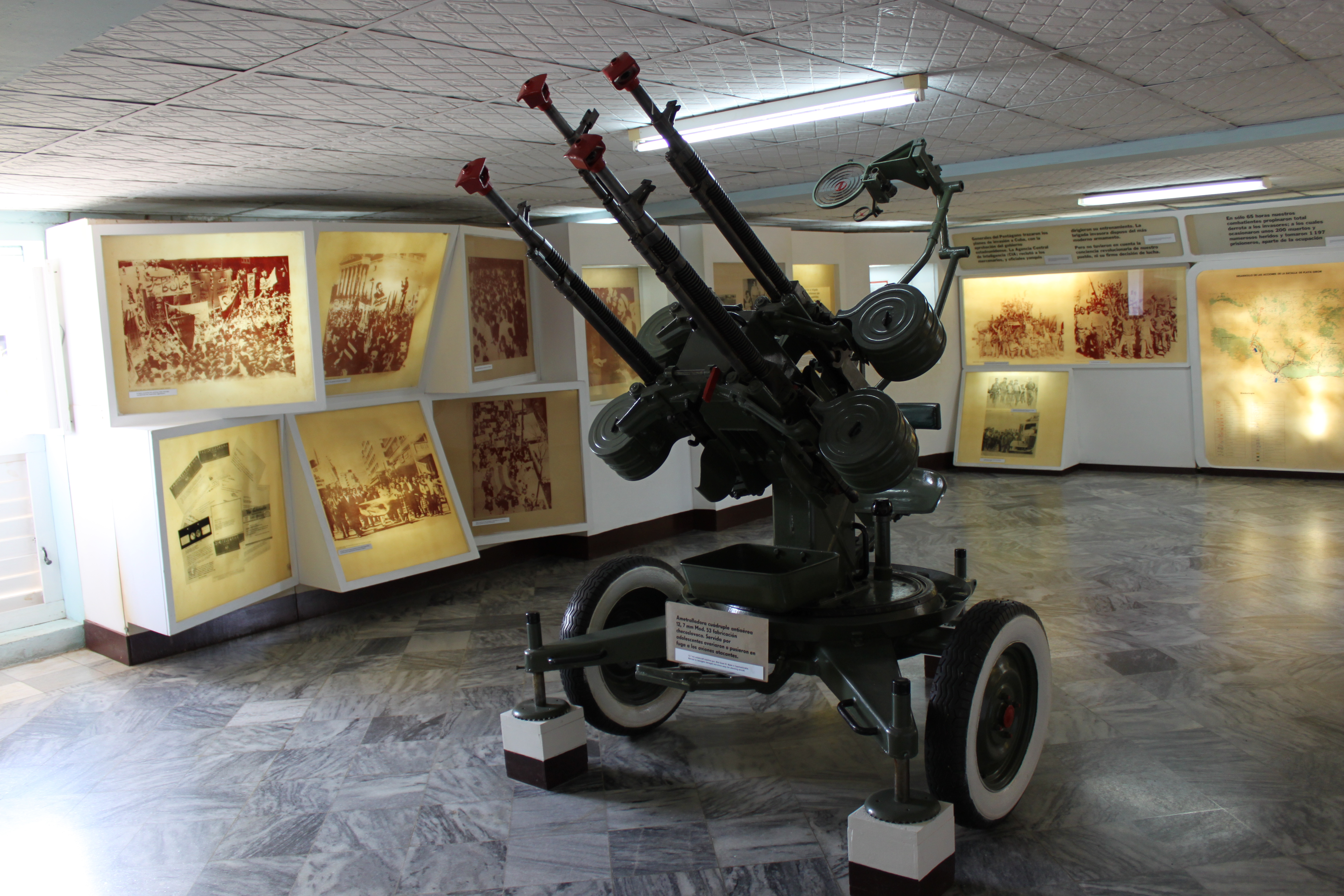 Museo Girón (museum about the invasion in the Bay of Pigs)